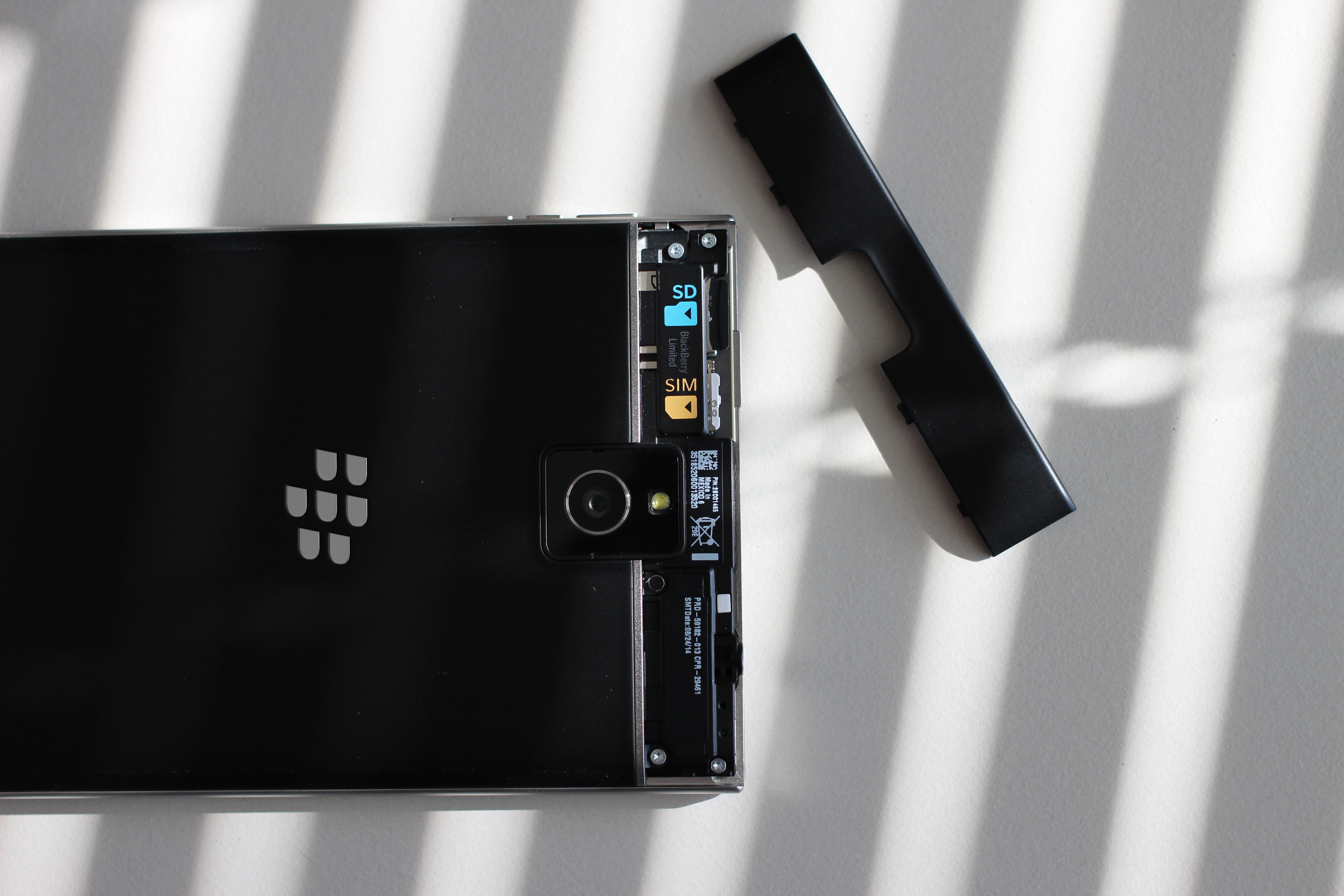 BlackBerry Passport